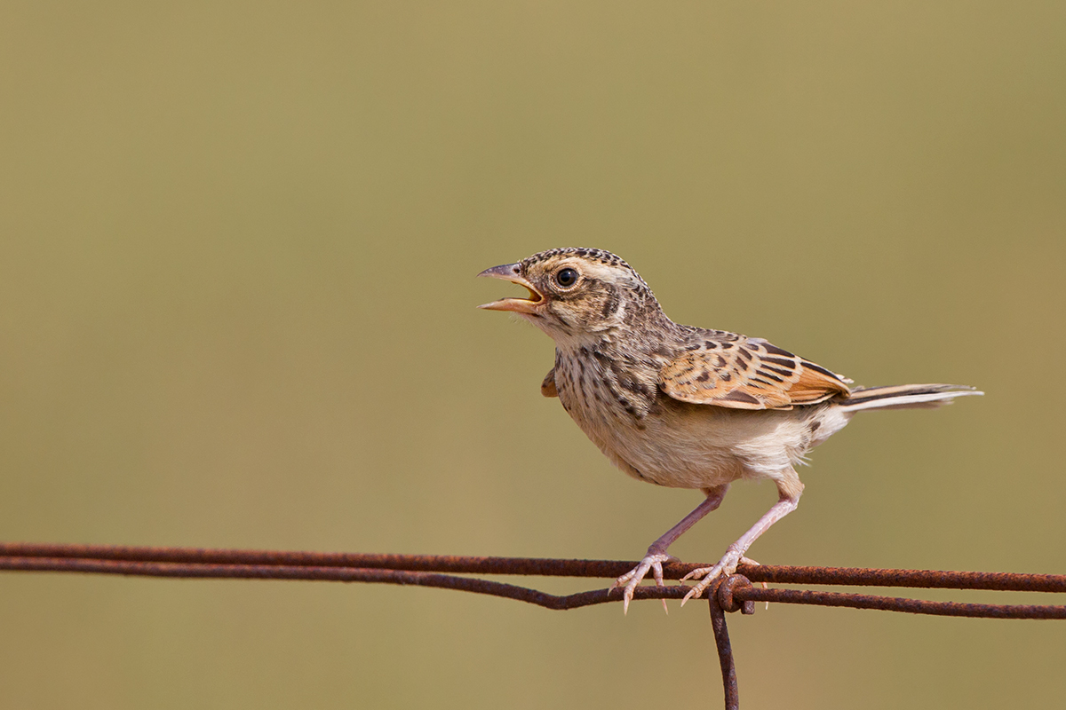 Mooloort Plains, Central Vic.